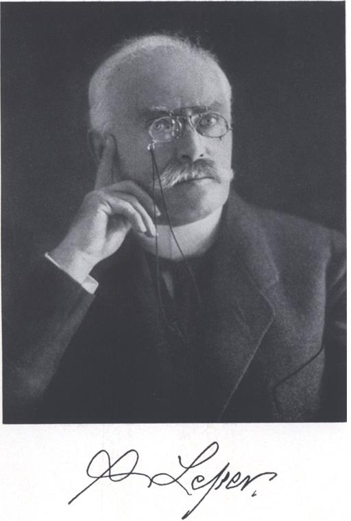 Adolf Lesser